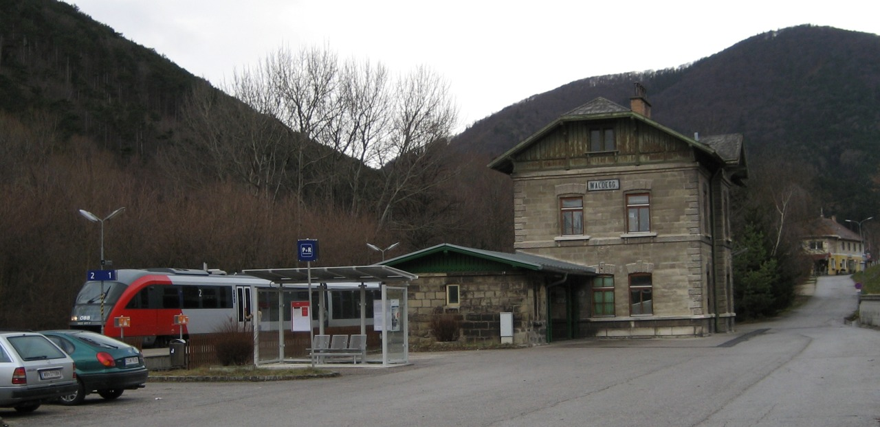 train station Waldegg in Lower Austrai